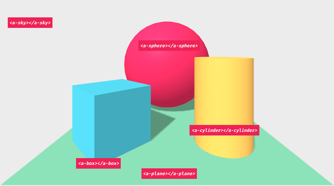 A-Frame "Hello World" example, with labels